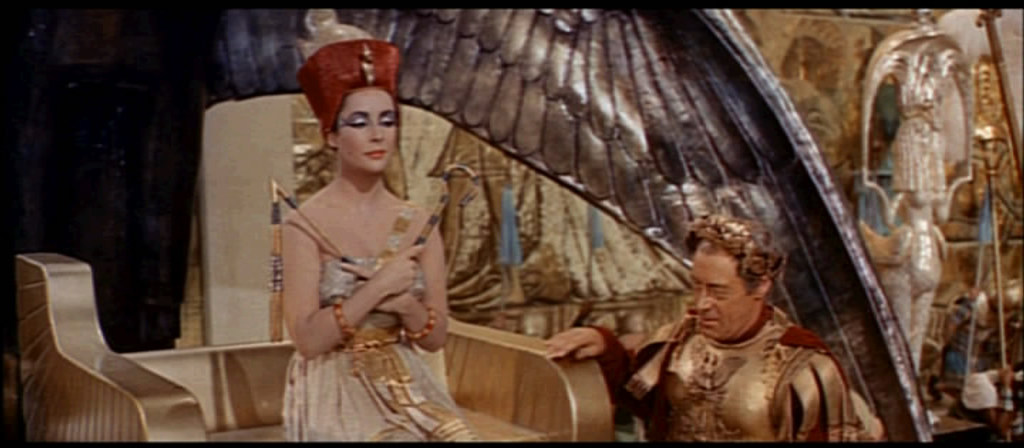 Screenshot of Elizabeth Taylor and Rex Harrison from the trailer for the film Cleopatra.